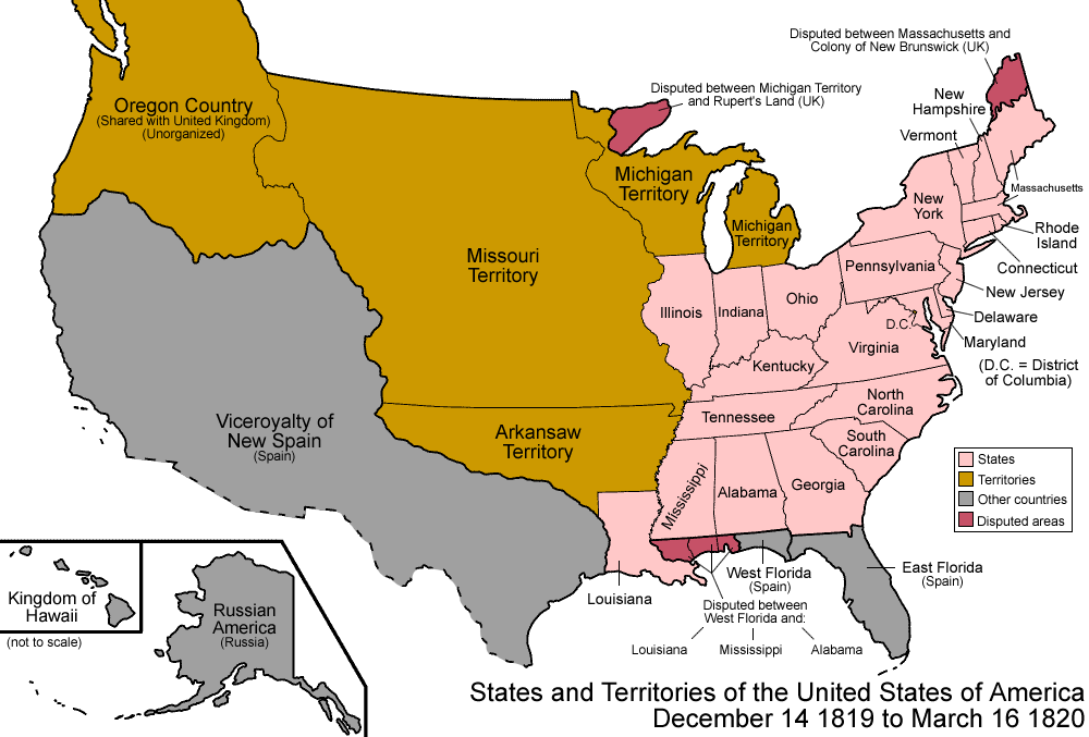 Map of the states and territories of the United States as it was from December 1819 to 1820. On December 14 1819, Alabama Territory was admitted as the state of Alabama. On March 16 1820, the northern district of Massachusetts was admitted as the state of Maine.